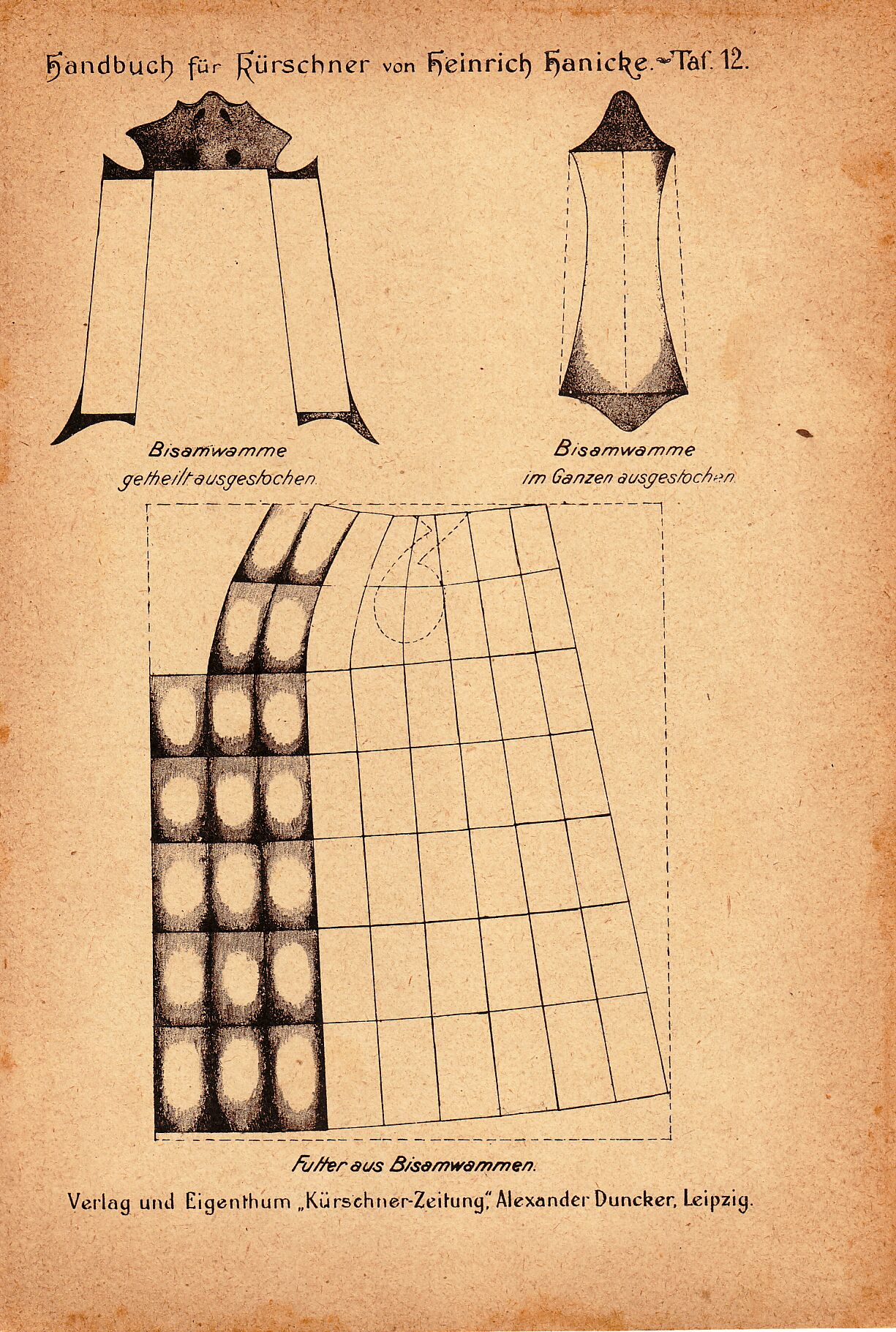 Graphics for Furriers - Futter aus Bisamwammen (lining from musquash bellies)